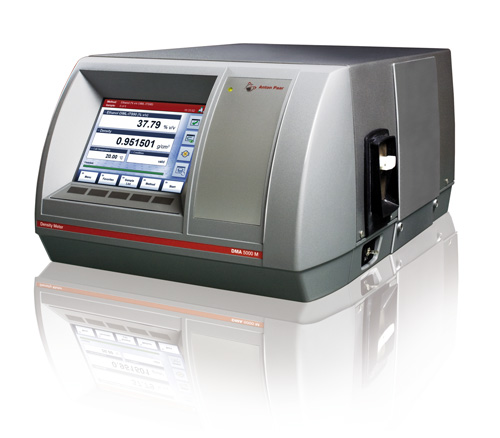 Digital Density Meter DMA 5000 M